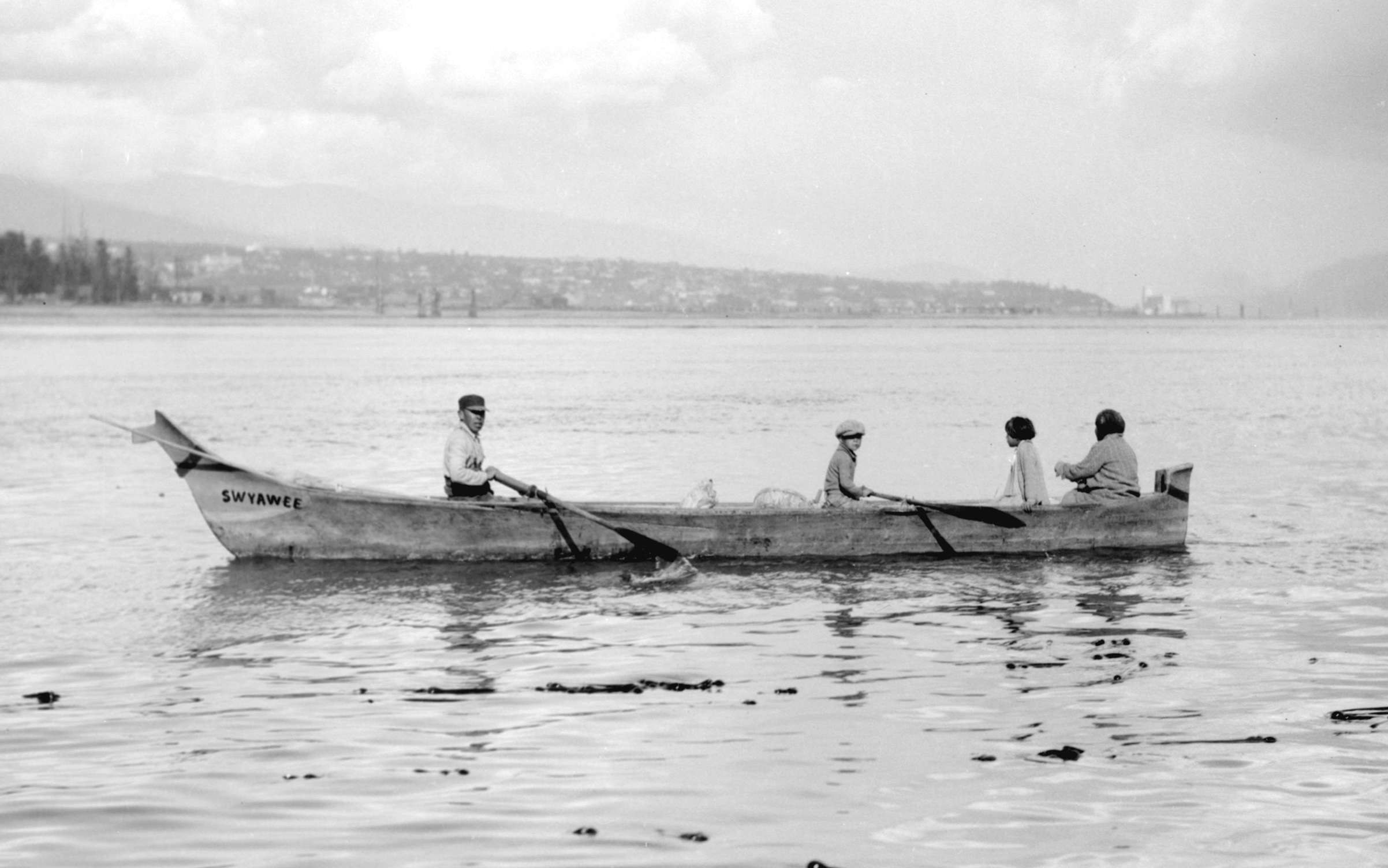 Dugout canoe. Photo taken in Burrard Inlet by Stuart Thomson (1881-1960) in 1930. Reference code AM1535-: CVA 99-2122